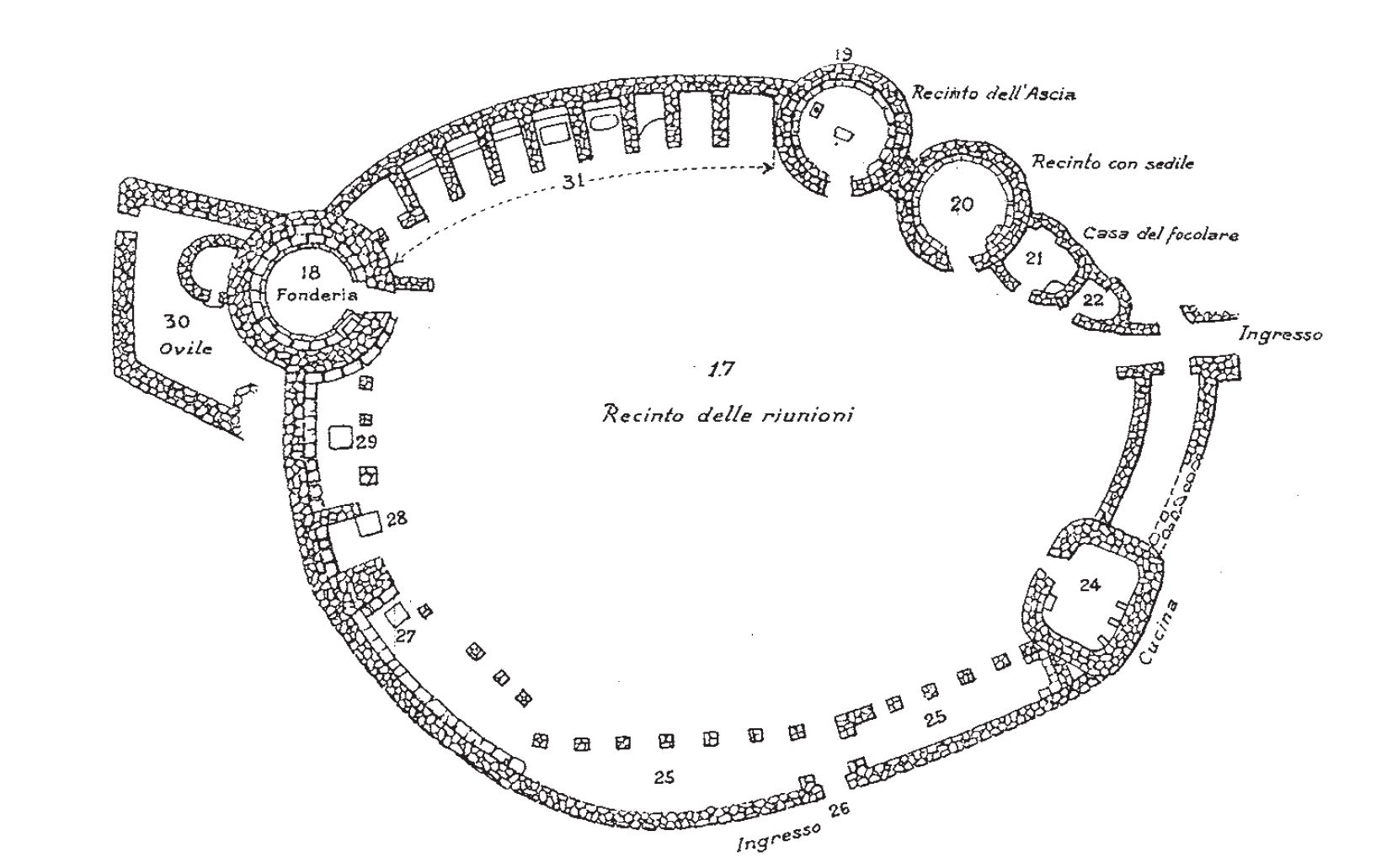 Nuragic sanctuary of Santa Vittoria (Serri - Sardinia - Italy) - map of the circle of feasts - original drawing in Taramelli's books